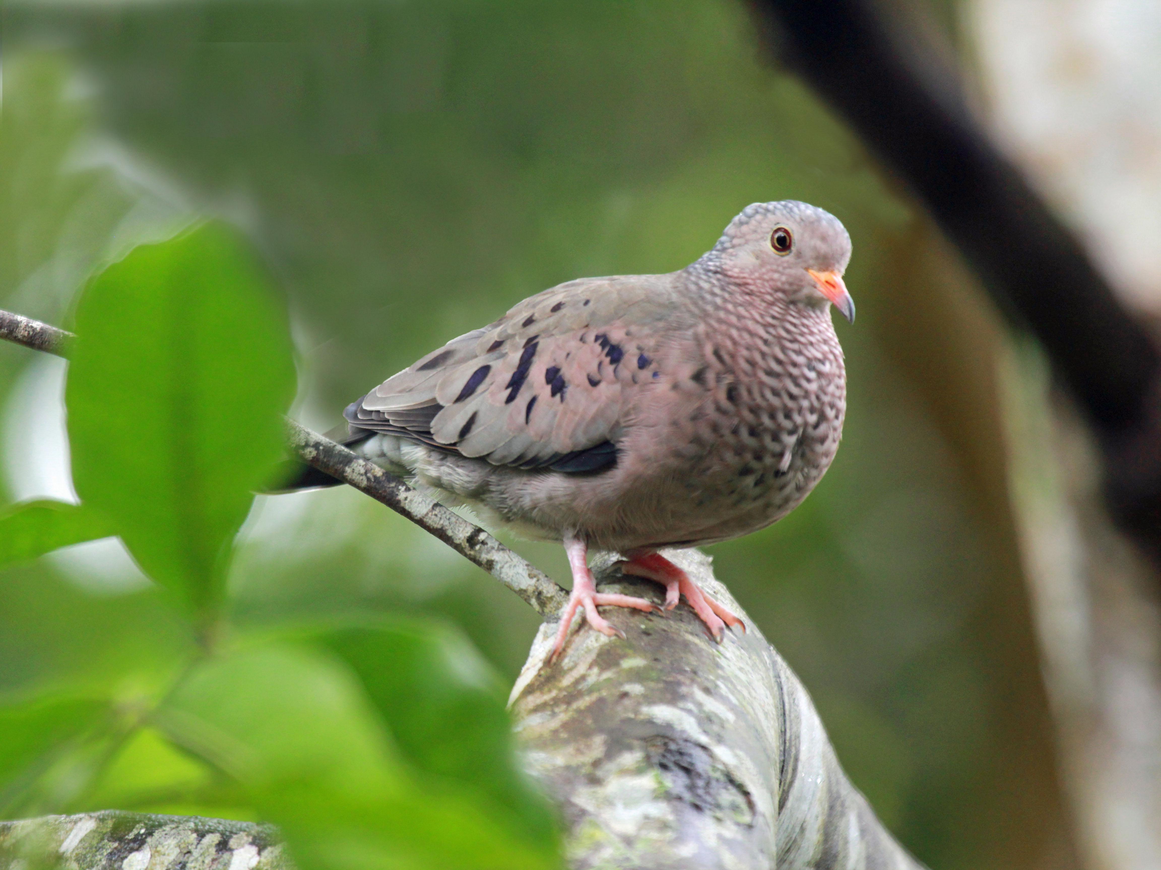 Common Ground Dove (Columbina passerina) in Jamaica